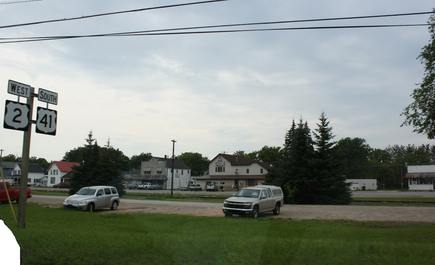 Looking northwest at downtown Bark River, Michigan from U.S. Route 2 / U.S. Route 41.